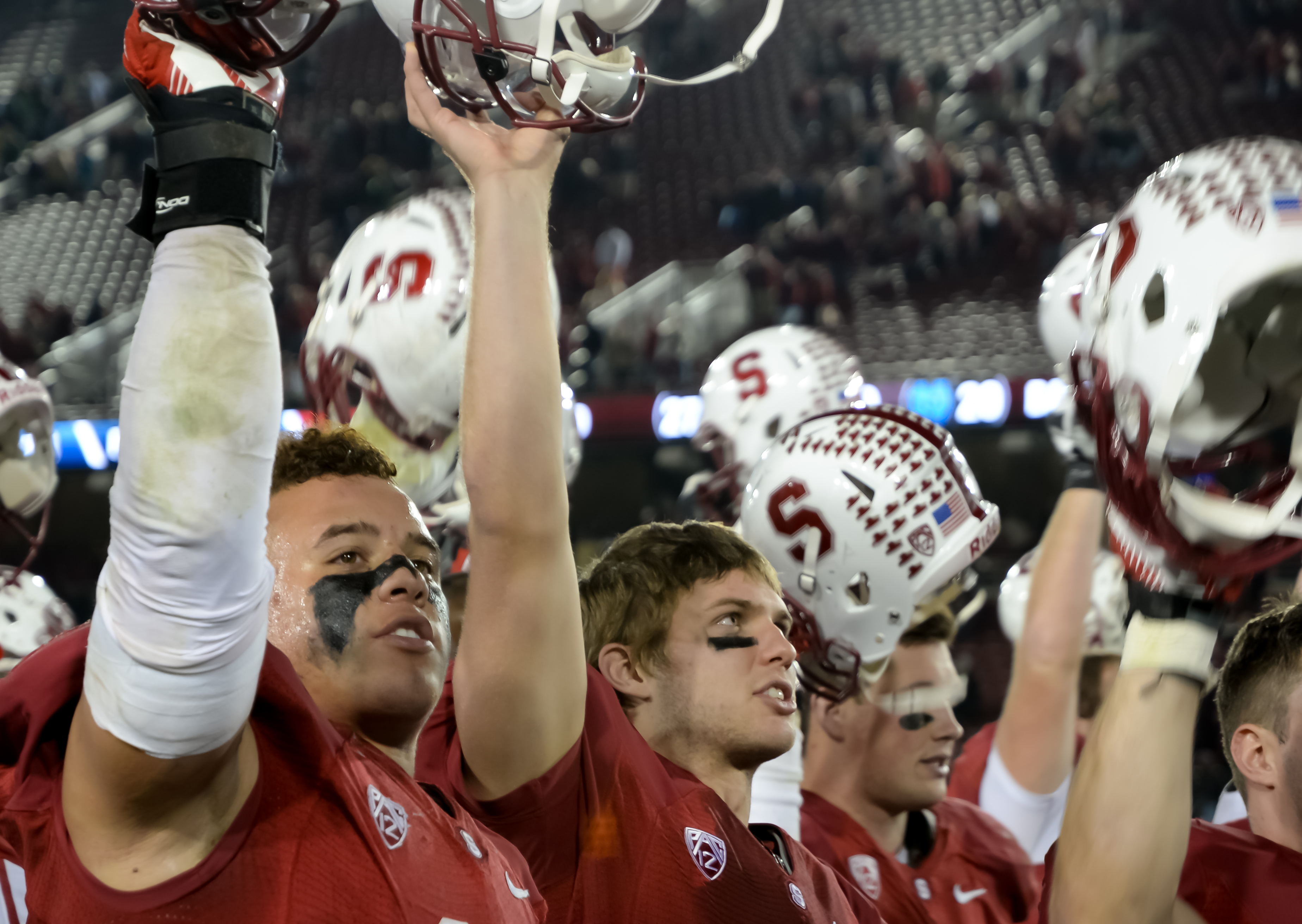 Hail, Stanford Hail!